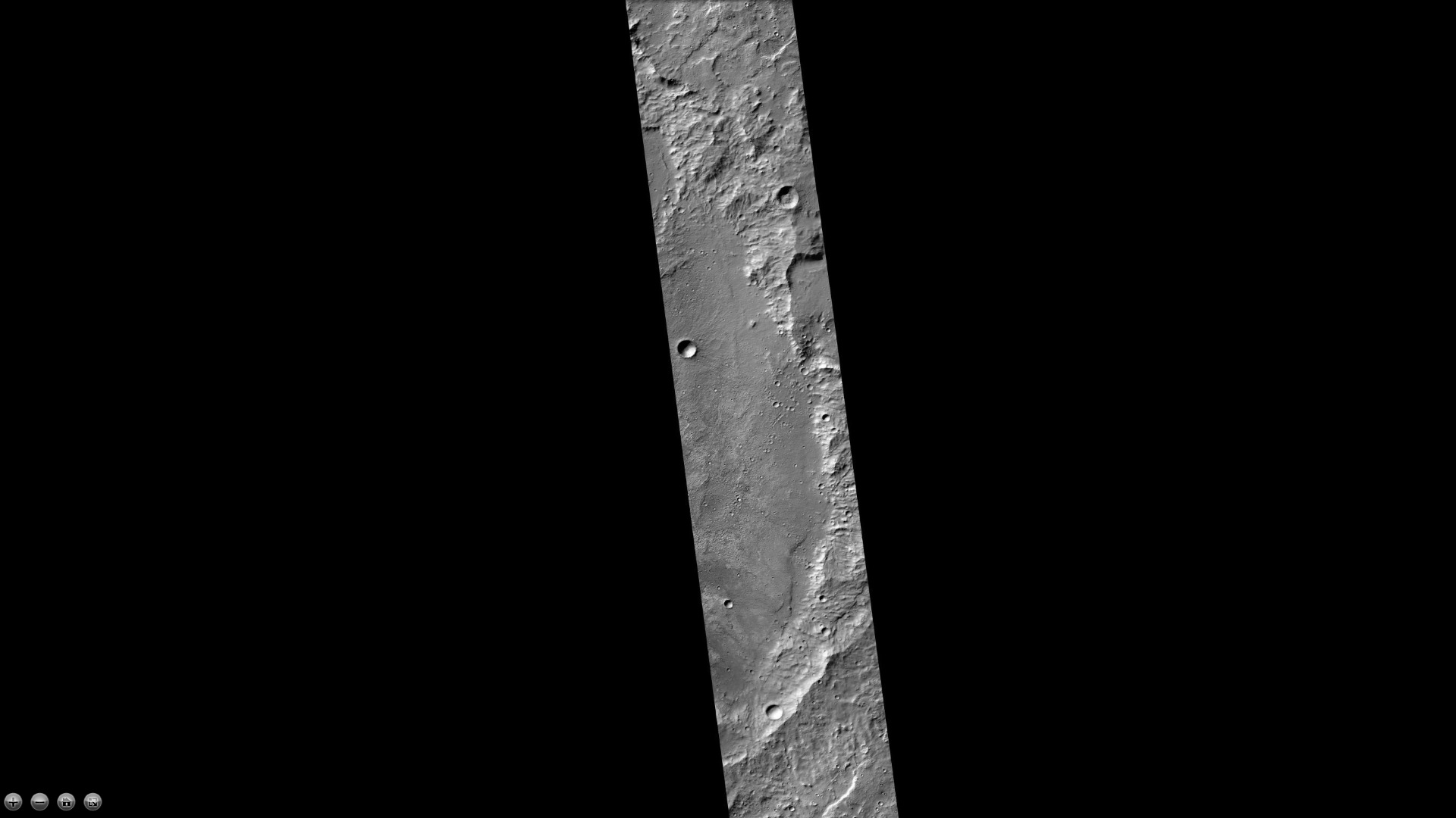 East side of Graff Crater, as seen by ctx